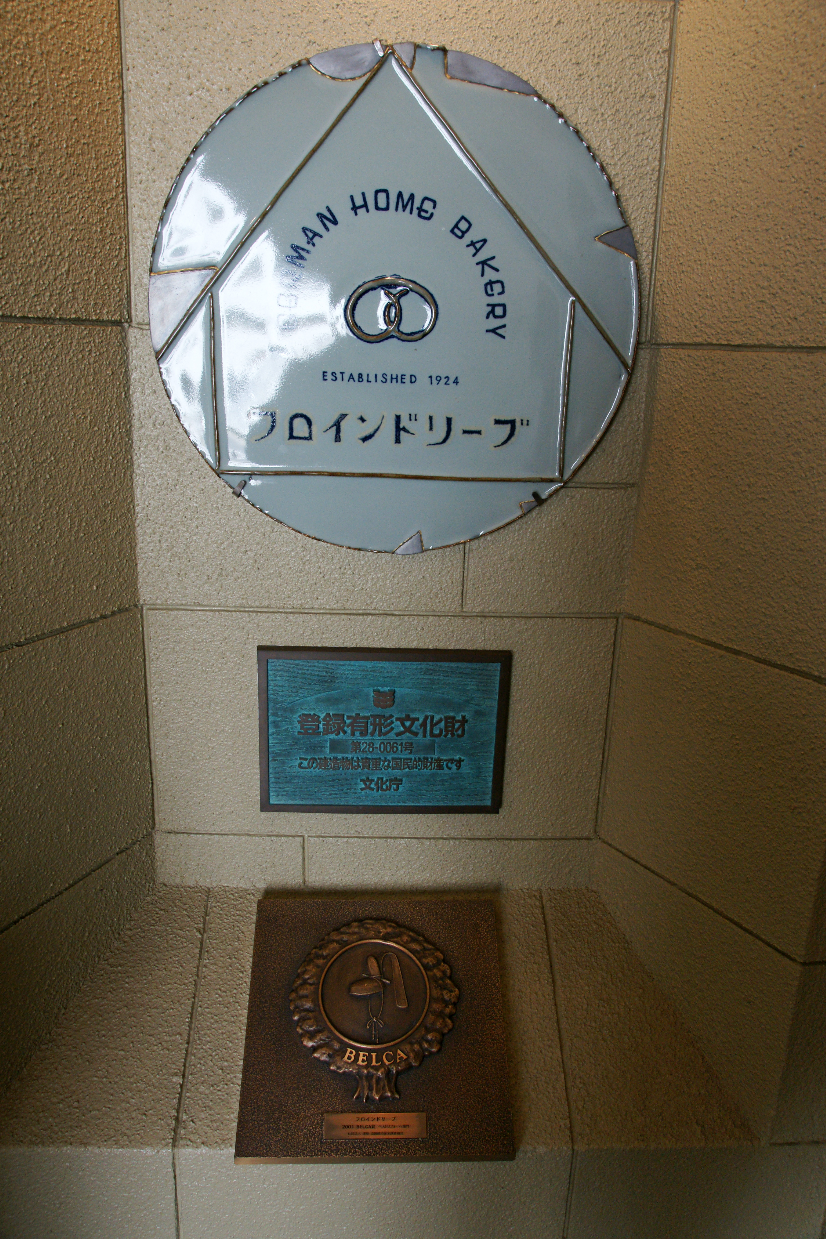 Former Kobe Union Church (Cafe FREUNDLIEB) in Kobe, Hyogo prefecture, Japan